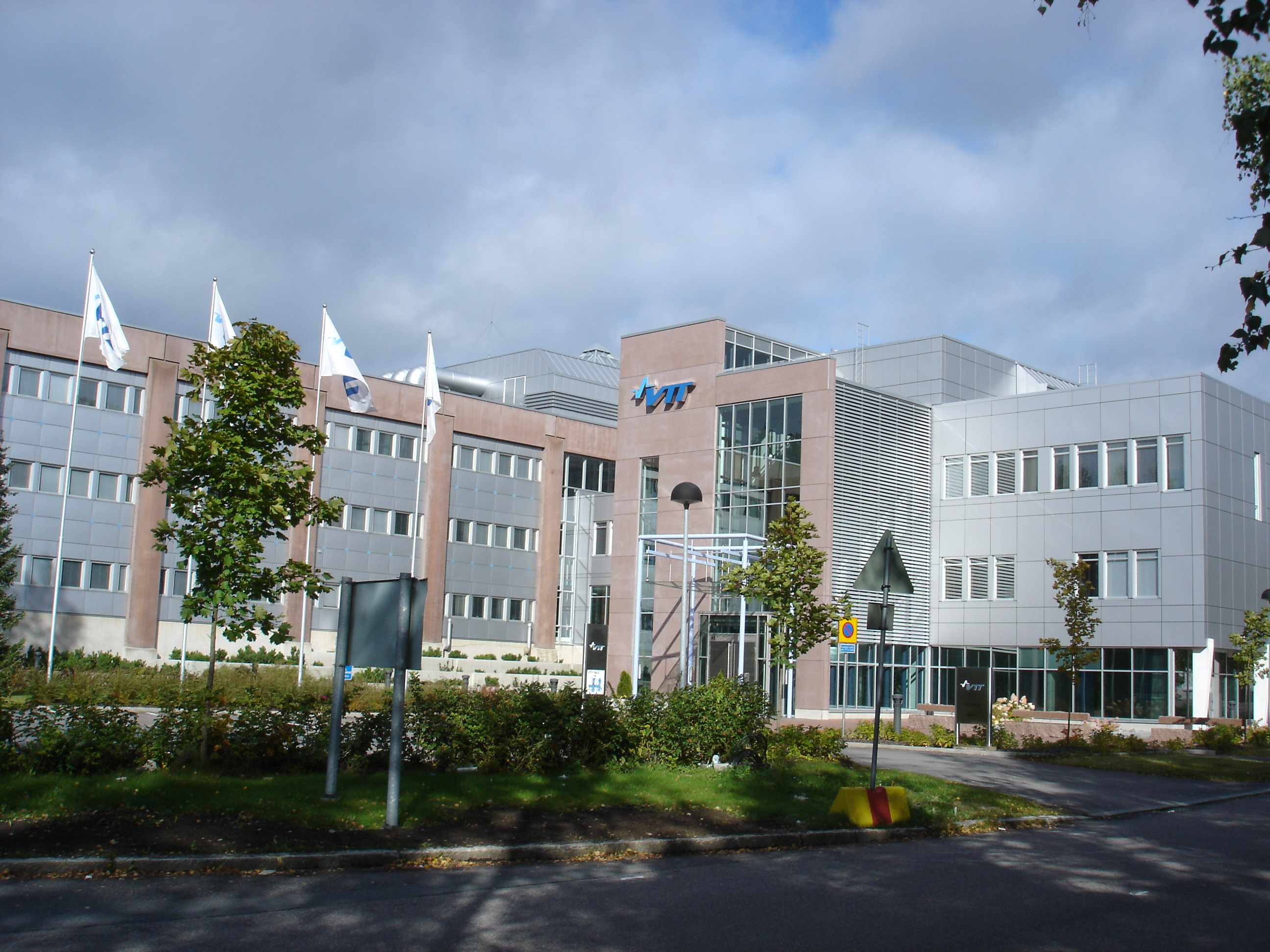 A unit of the Technical Research Centre of Finland located in Hervanta, Tampere